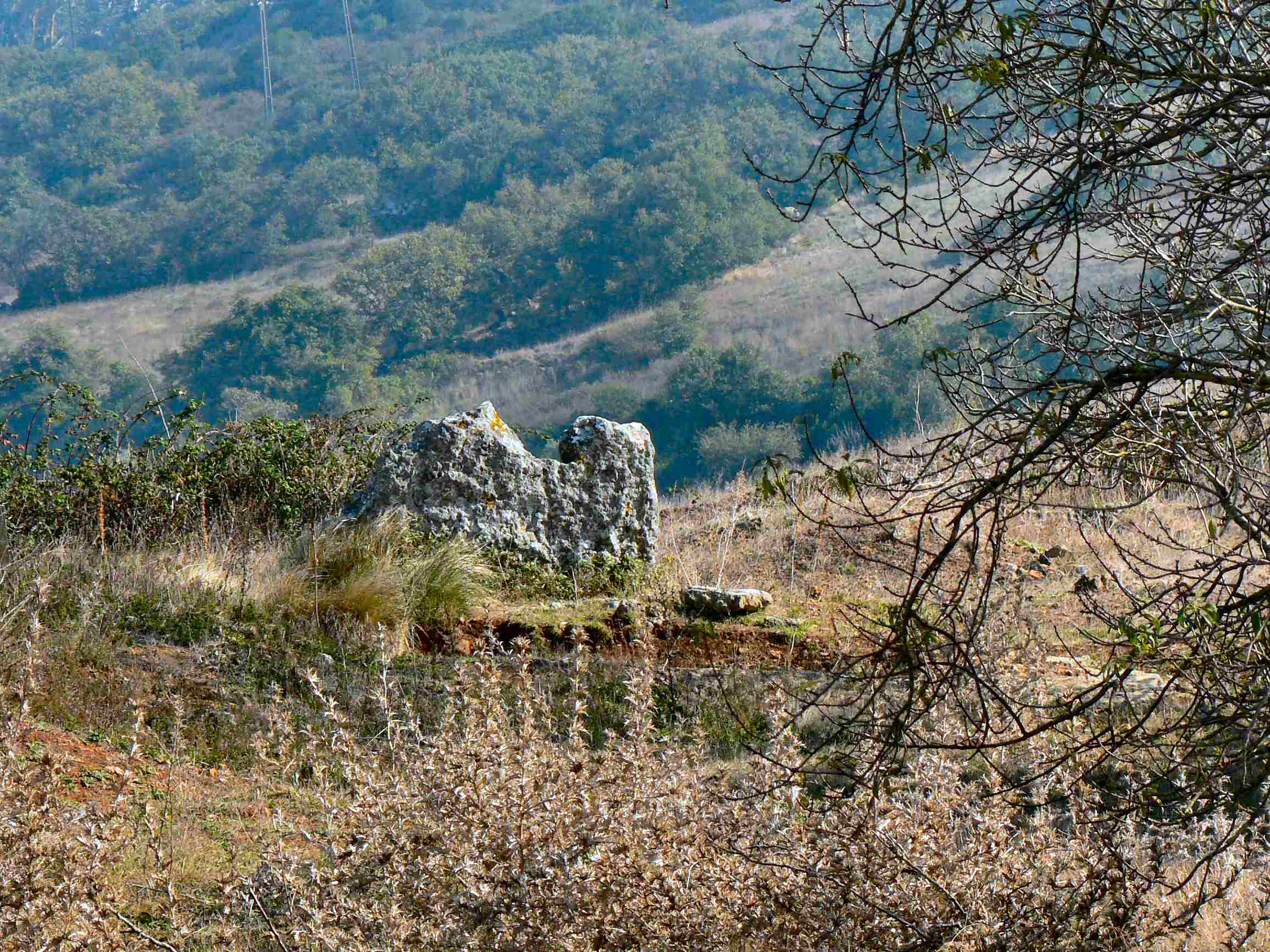 Dolmen of Casaínhos. Casaínhos, Fanhões, Loures, Portugal